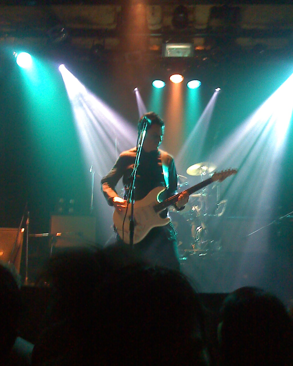 Richard Coleman en La Trastienda